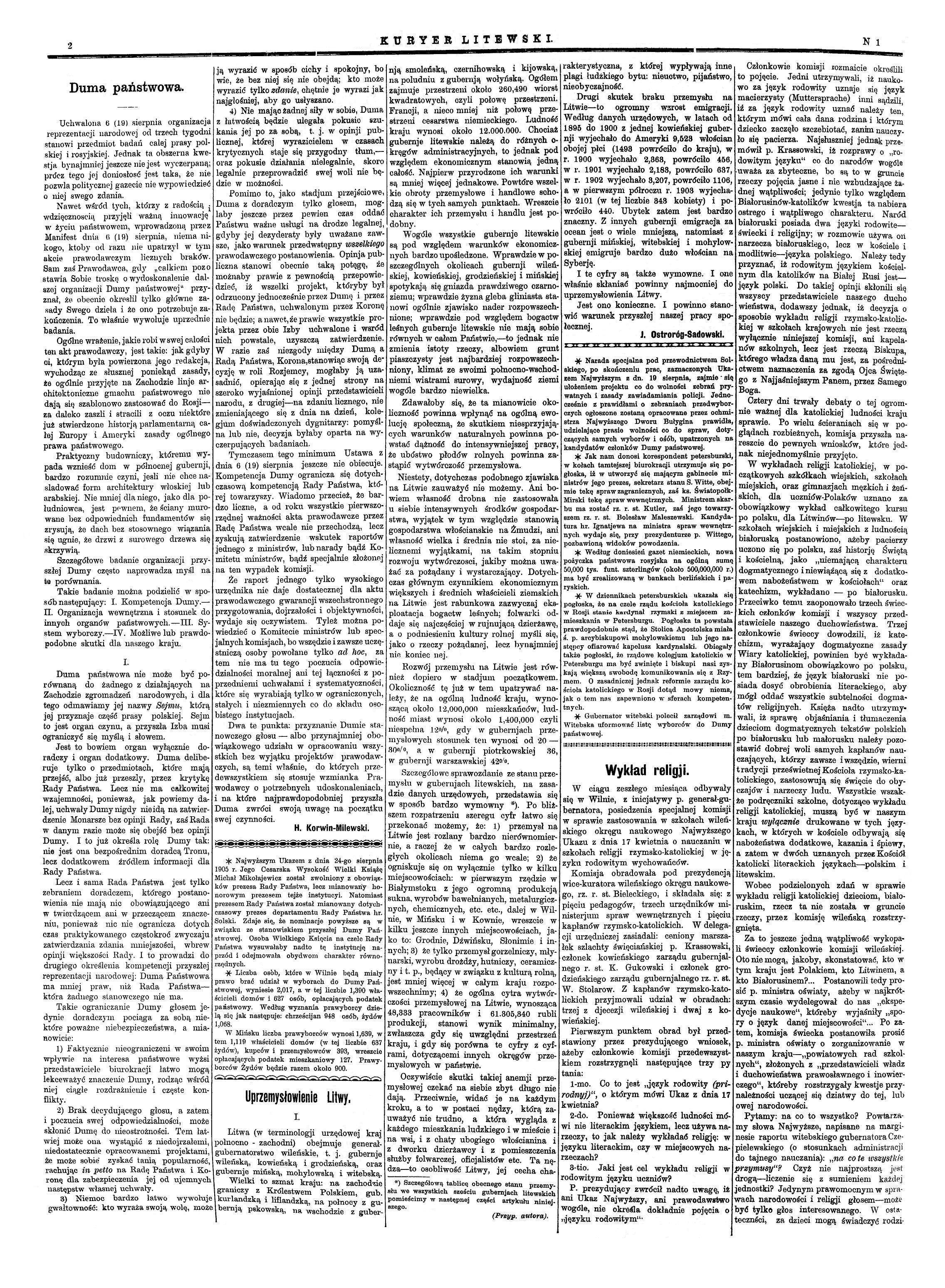 second page of newspaper "Kuryer Litewski" (#1, 1905 AD), Russian empire